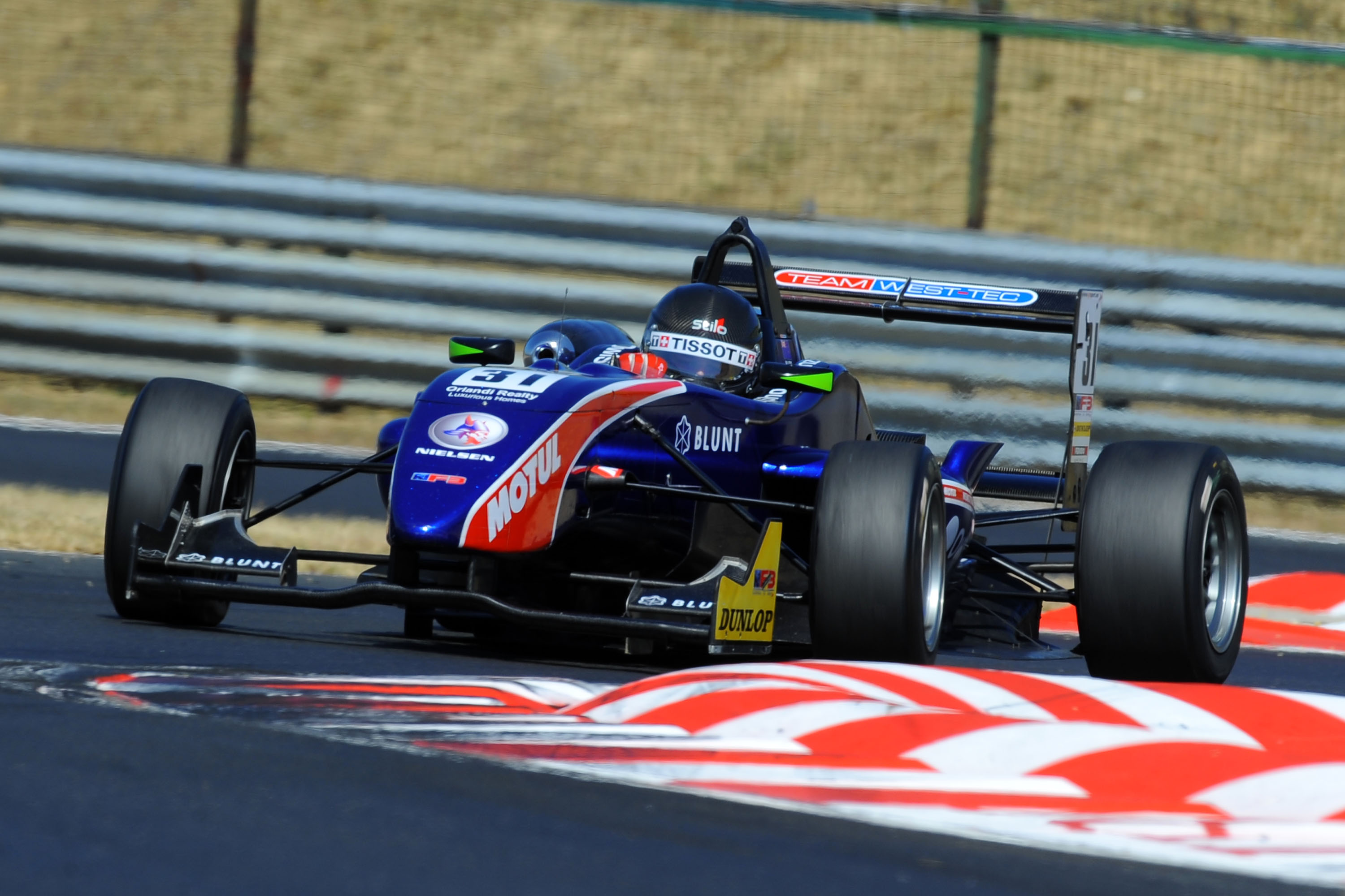 Chris Vlok European F3 Open Hungaroring 2012